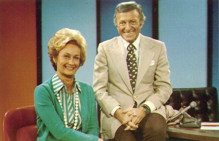 Photograph of Lou and Jackie Gordon from "The Lou Gordon Program." The Lou Gordon Program'